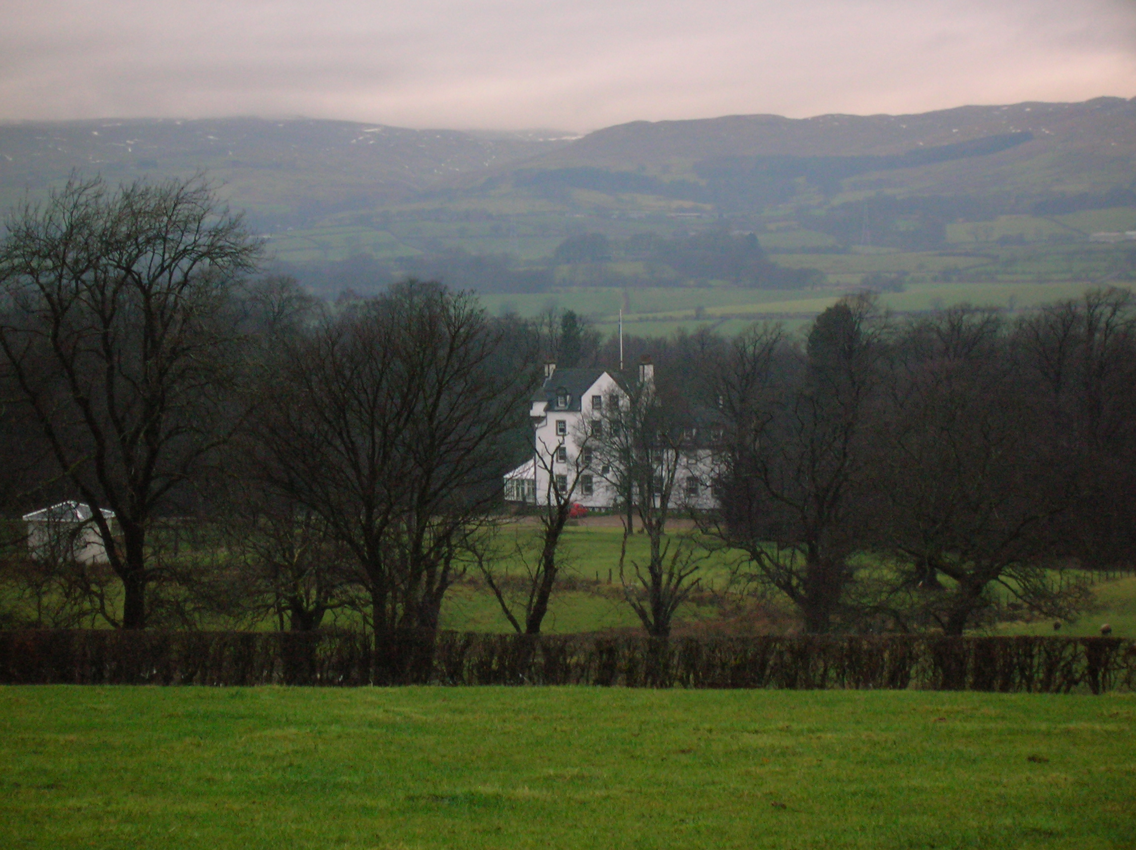 Woodside House, Dalry, North Ayrshire, Scotland